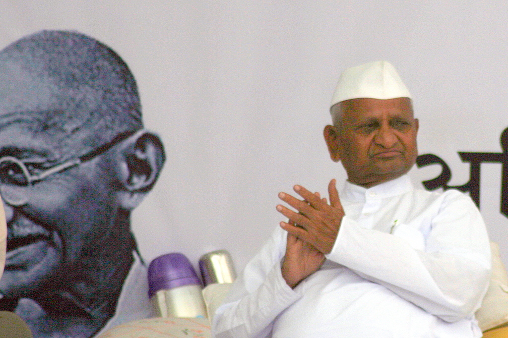 Social activist and Gandhian Mr Anna Hazare went on fast unto death on Tuesday demanding greater public role and more powers in Anti corruption Bill ( Lok Pal Bill).He mentioned that very weak version of the Bill had been presented eight times to the Parliament by successive Governments during last 42 years but not approved. Hundreds of supporters ,some of them on hunger strike, were sitting with him on a hot summer day in tented area near Jantar Mantar about 1 Kilometer from Indian Parliament House. Many prominent Indians and organizations all over country are supporting demands of Mr Anna Hazare.